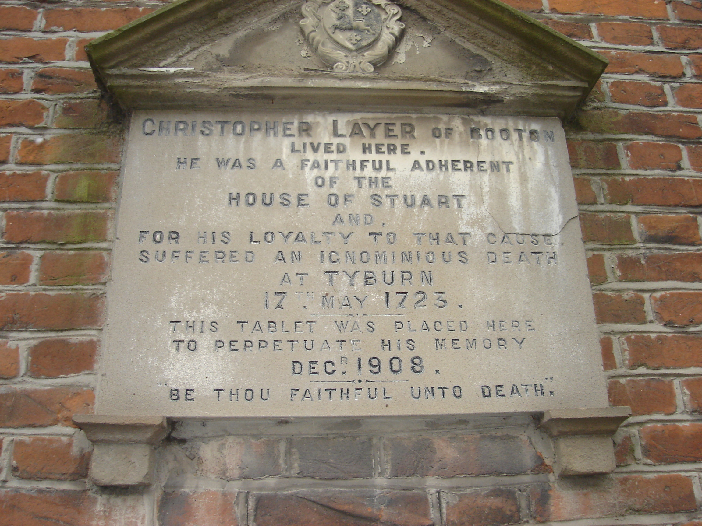 Picture of wall plaque dedicated to Christopher Layer located in Aylsham, Norfolk